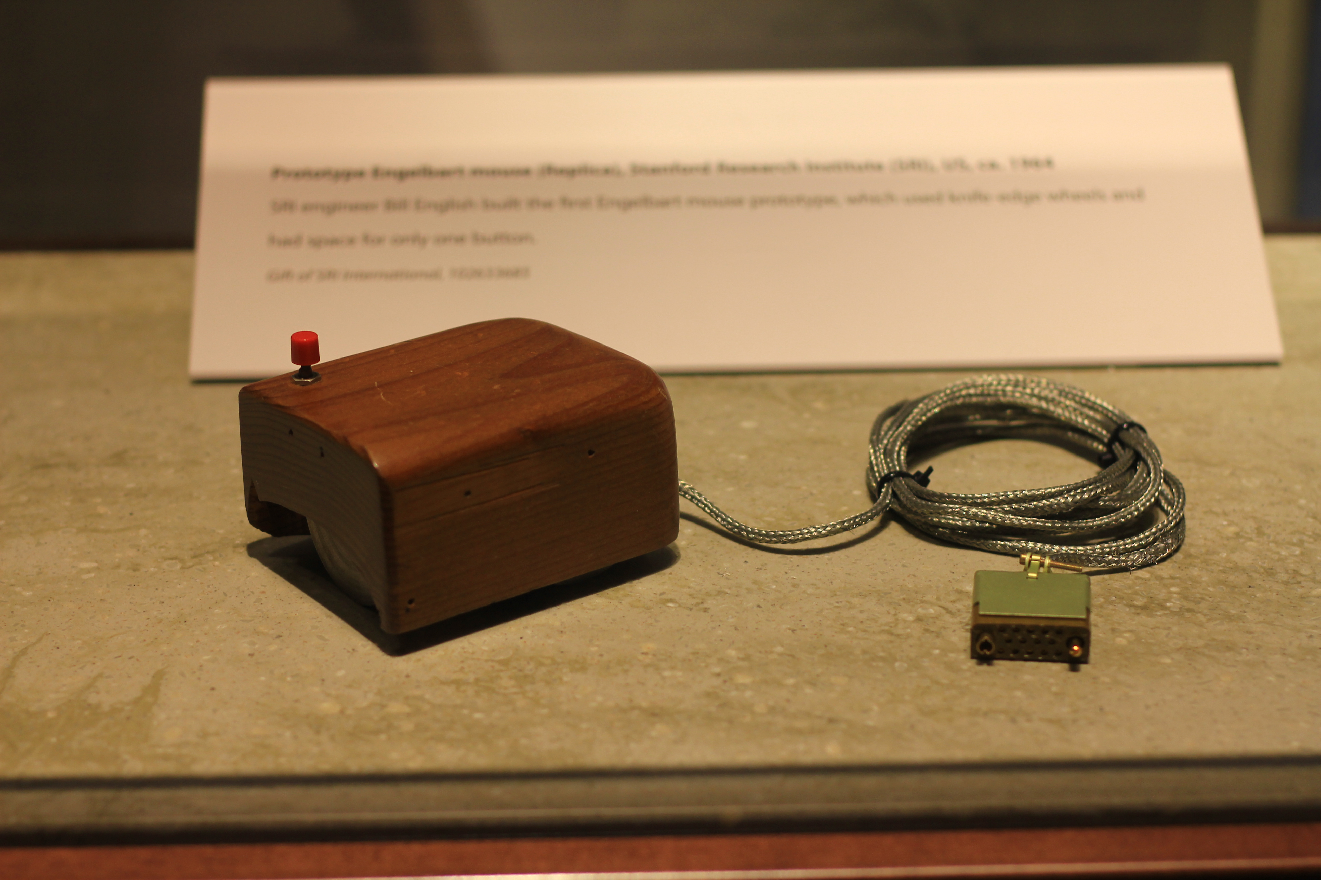 The first prototype computer mouse, developed by Bill English and famously used by Douglas Engelbart in "The Mother of All Demos", a demonstration of the oN-Line System in 1968.